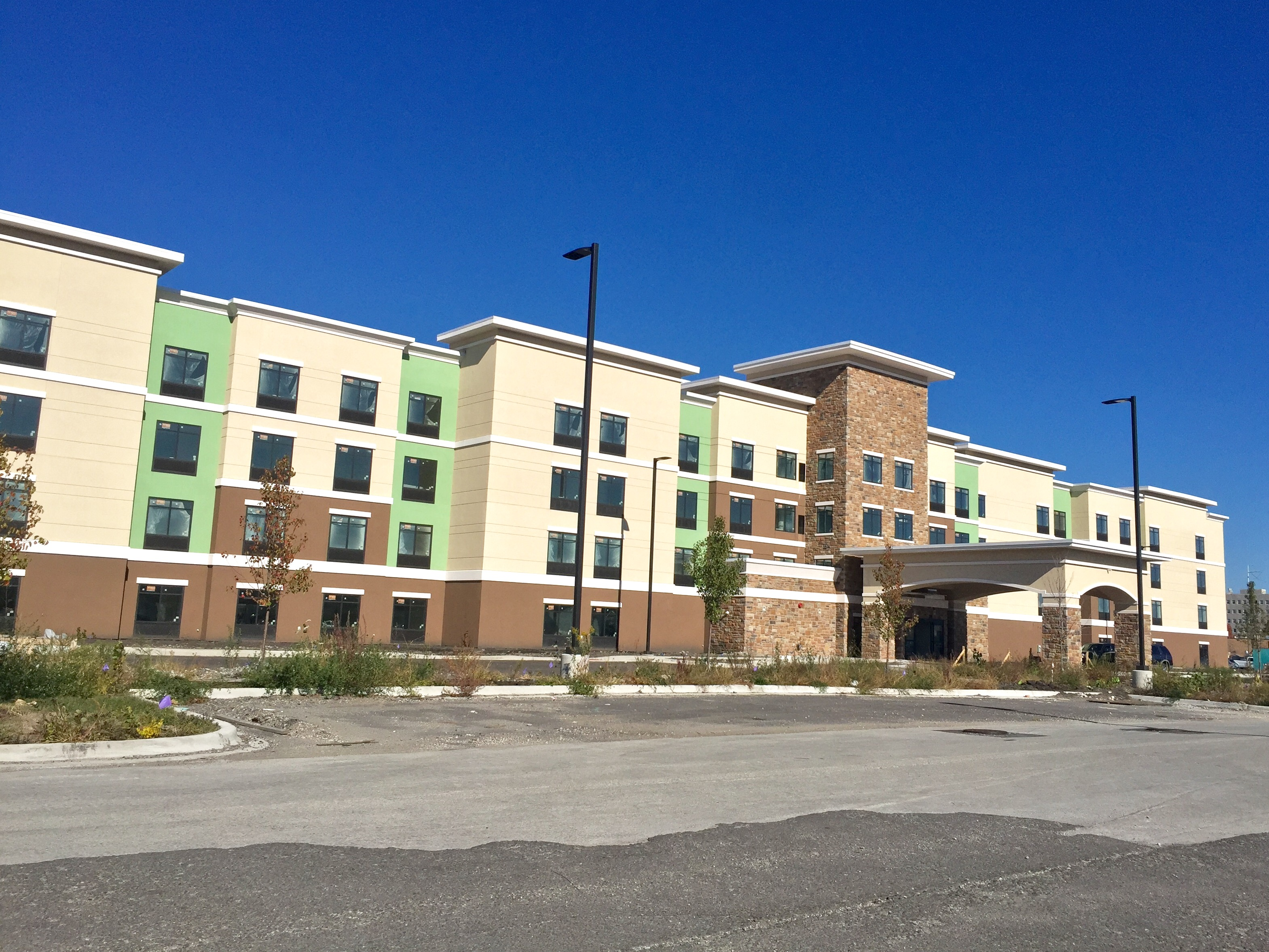 Homewood Suites by Hilton under construction in Munster, IN